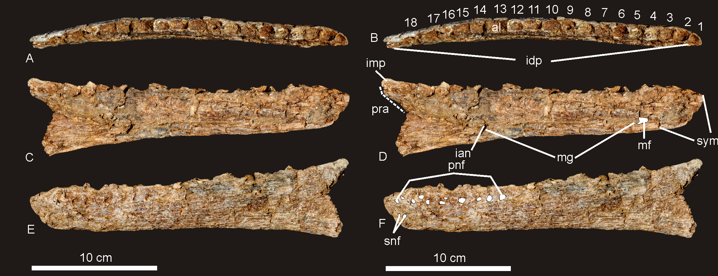 Dentary of Australovenator wintonensis. Left dentary in dorsal (A–B), lingual (C–D) and labial (E–F) views. Numbers represent tooth loci (alveoli) position. Abbreviations: al, alveolus, ian, foramina for branches of the inferior alveolar nerve; idp, interdental plates (fused); imp, intramandibular process of dentary; mf, Meckalian foramen; mg, Meckalian groove; pnf, primary neurovascular foramina row; pra, contact for prearticular; snf, secondary neurovascular foramina; sym, symphysis.